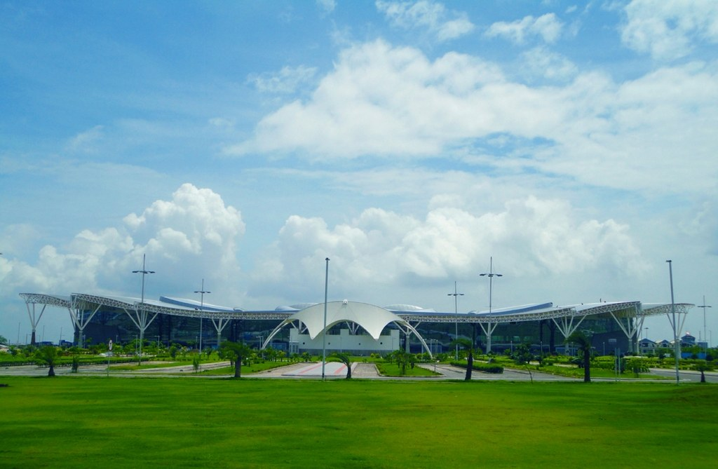 New Integrated Terminal at Swami Vivekananda Airport Raipur.